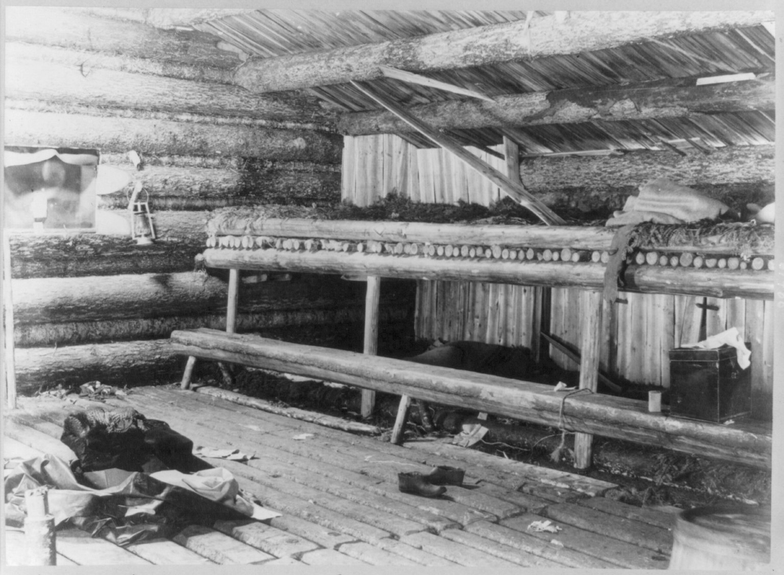 Title: Interior of loggers' camp on Mud Pond in which 39 nights were spent camping Abstract/medium: 1 photographic print.